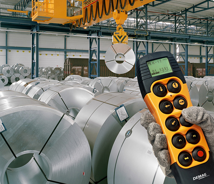 Demag Bridge crane Overhead crane Hoist device with radio control.